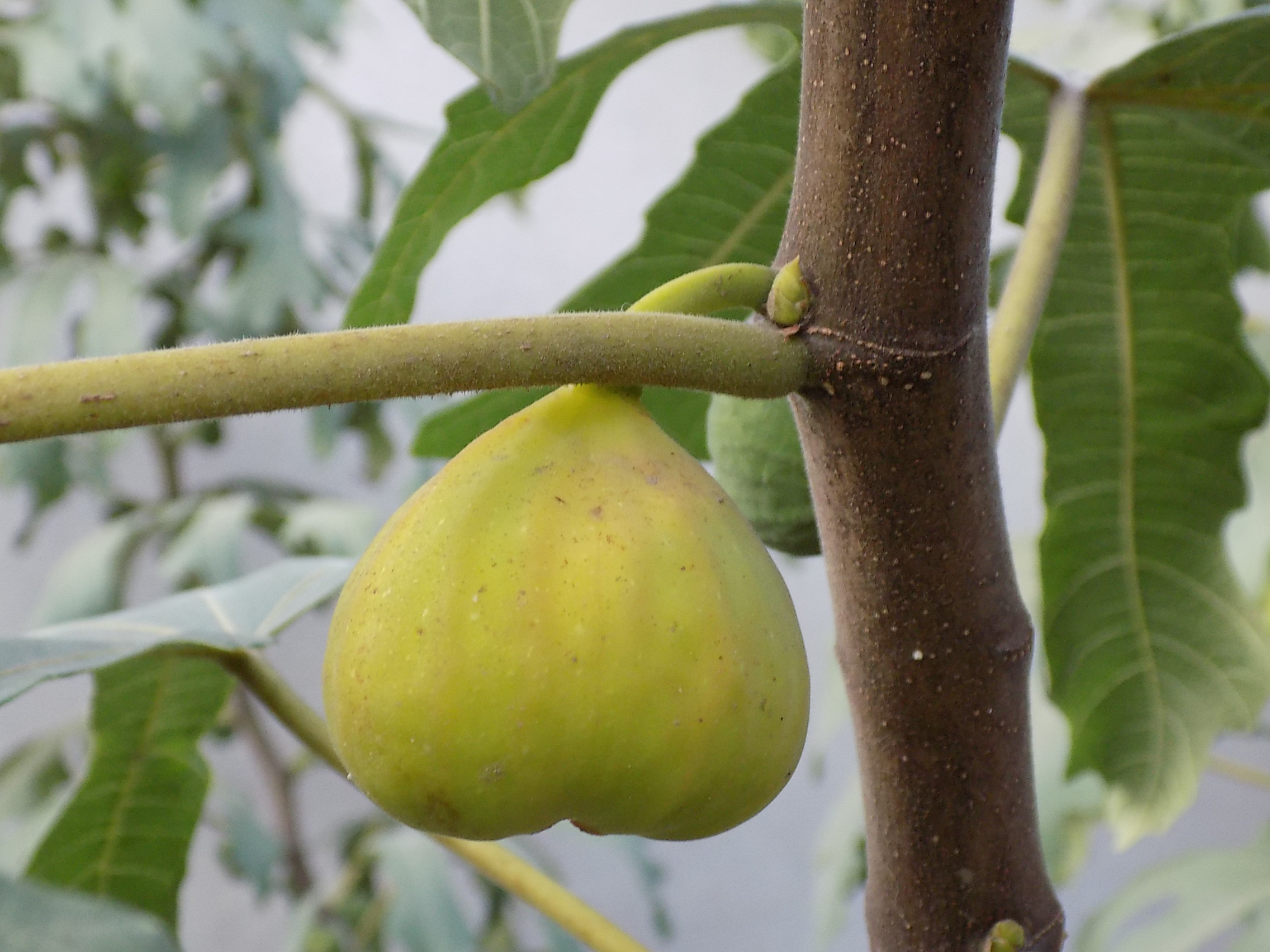 Fig or common bfig (Latin Ficus carica) - a subtropical leafy plant of the genus Ficus (Ficus). Photo taken in October 2016. Ukraine, Odessa region, Kilia city